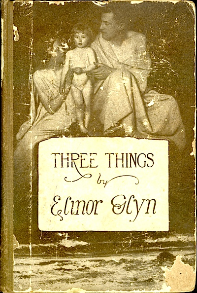 Three Thing by Elinor Glyn - book cover